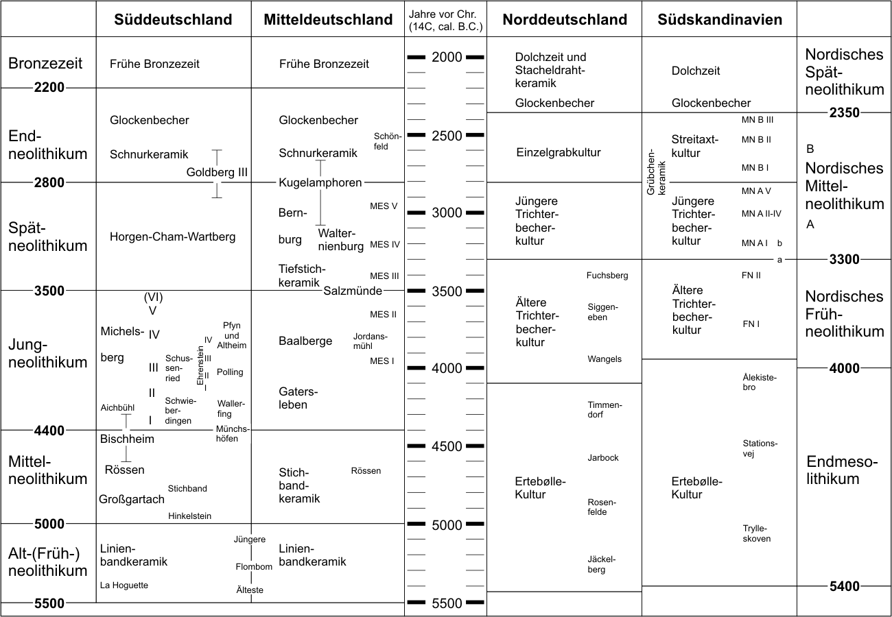 Chronology of German and Souther Scandinavian Neolithic